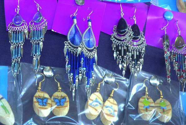 Ornate earrings from Costa Rica